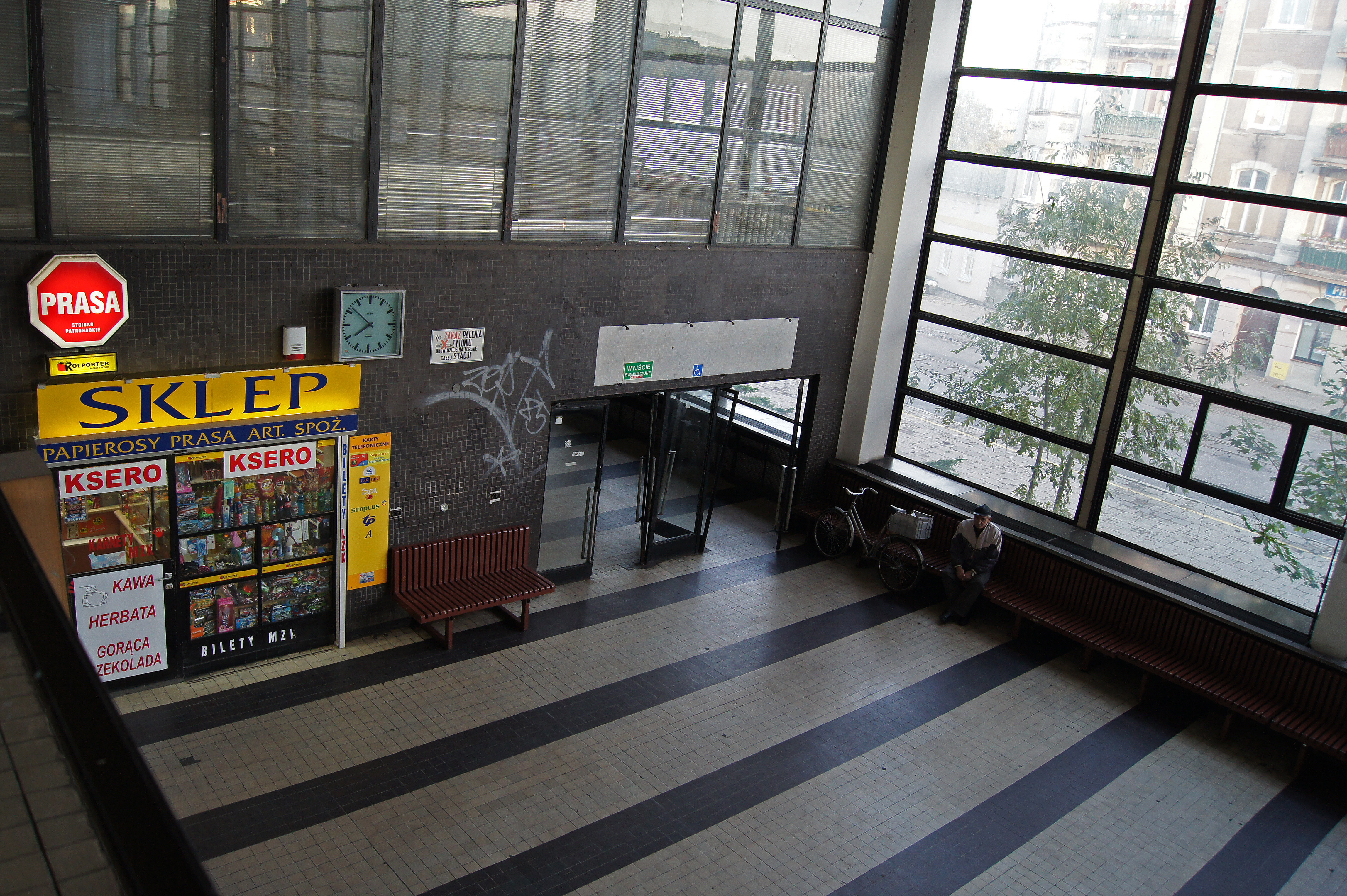 Interior of Grudziadz Train Station.